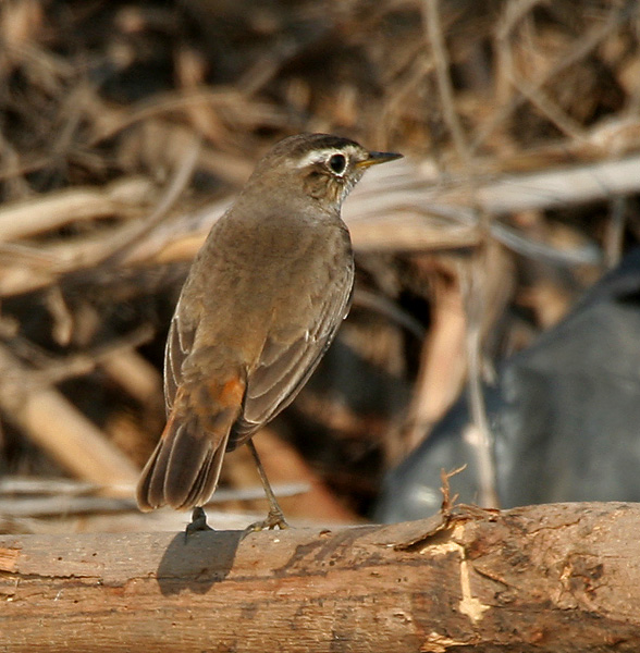 Bluethroat Luscinia svecica in Hyderabad, India.